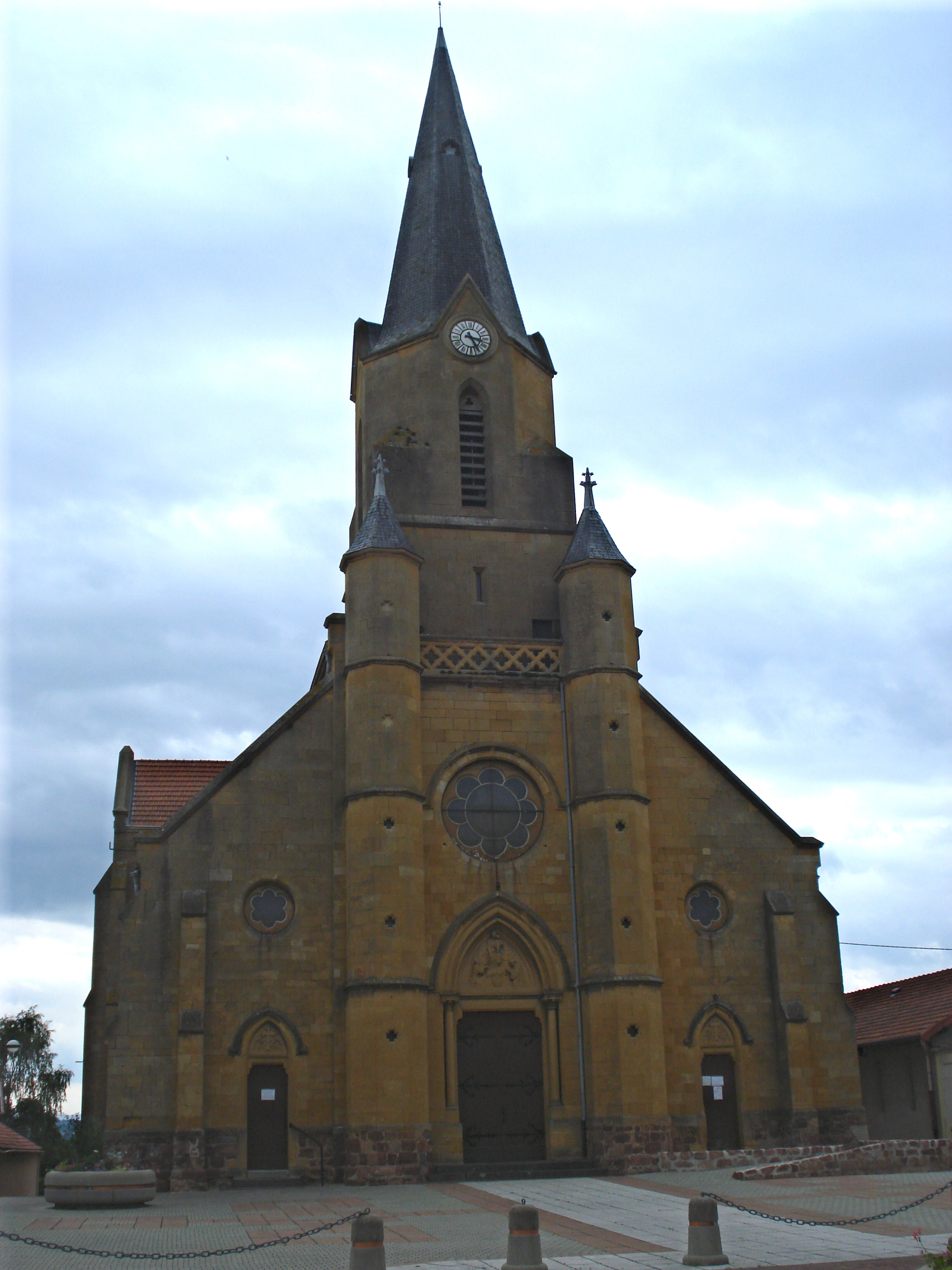 Mably (Loire), l'église.